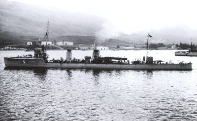 A picture of a Japanese destroyer of the Momo class